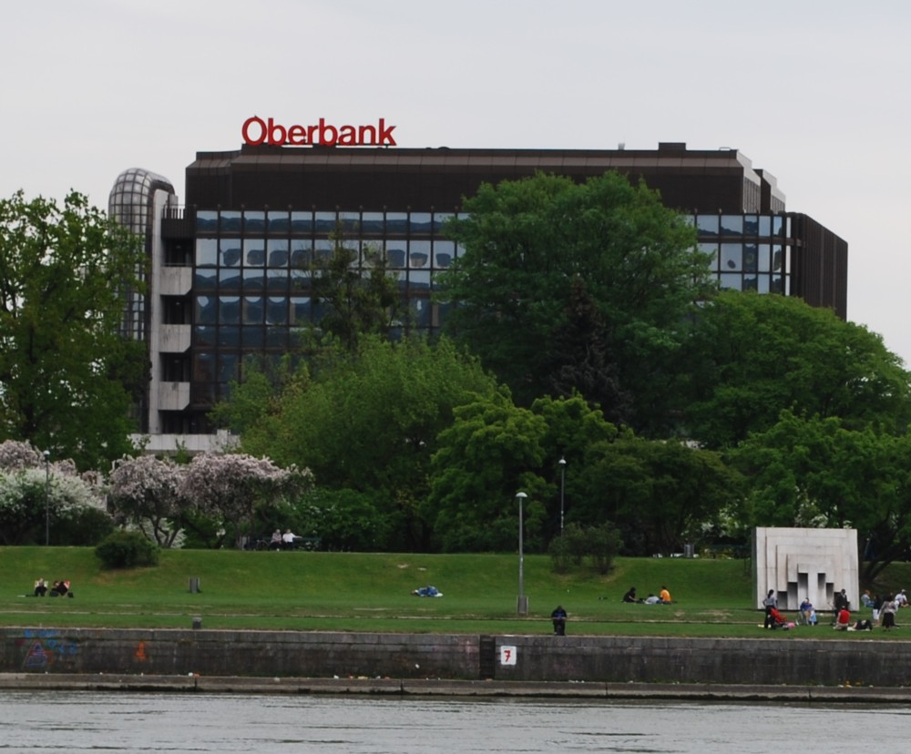 Headquarters of Oberbank, on the river Danube in Linz, Austria